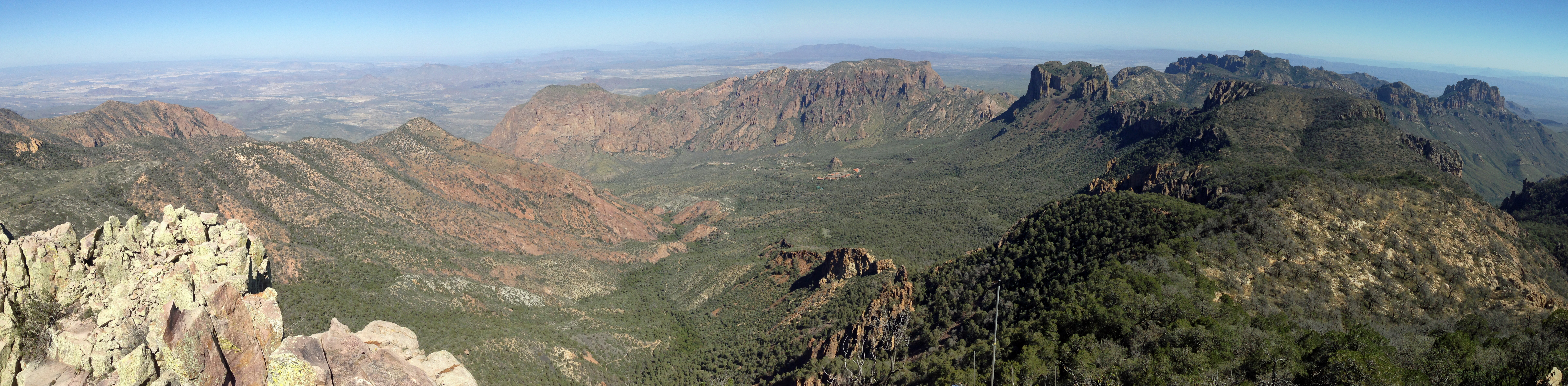 The view into the Chisos Basin from the summit of Emory Peak in Big Bend National Park, Texas.